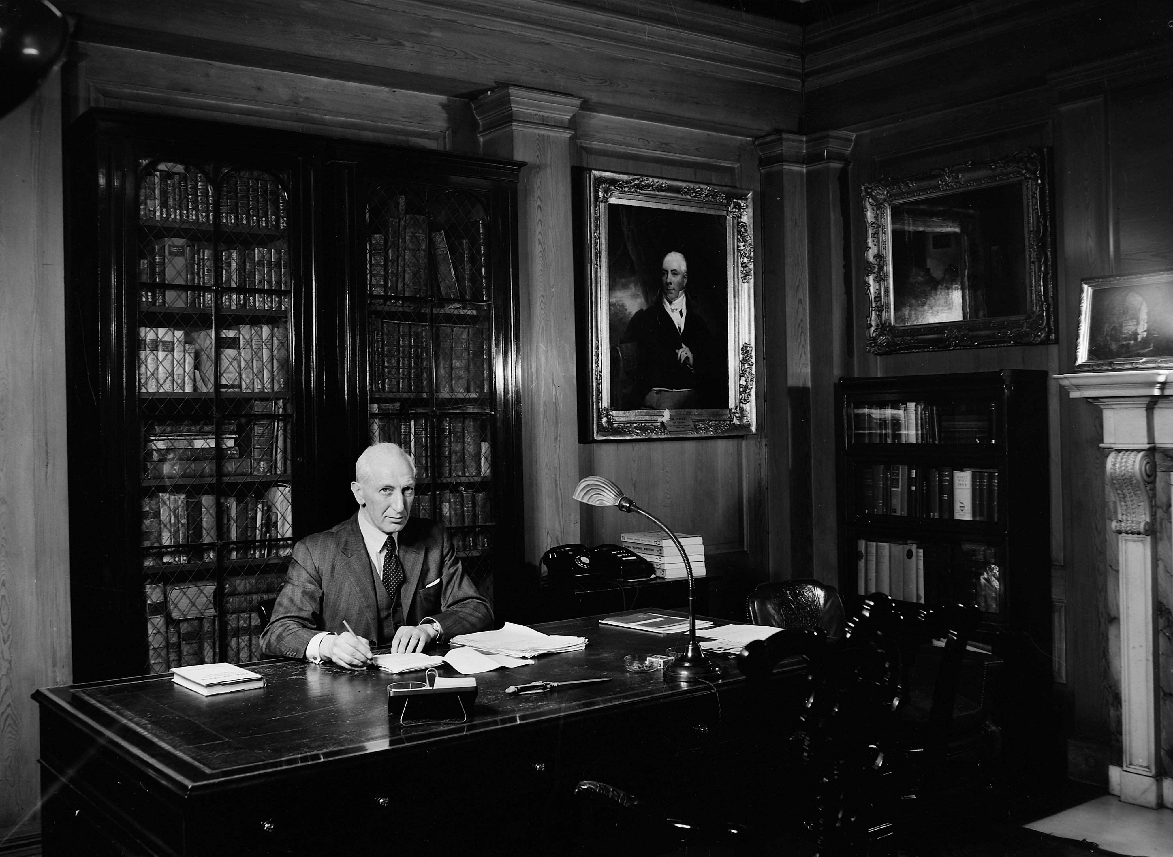 The Director, Dr. E. Ashworth Underwood in his room, at 28, Portman Square, W.1. Shortly before the W.H.M.M. returned to the Wellcome Research Institution. Wellcome Images Keywords: Wellcome Historical Medical Museum; Wellcome Historical Medical Museum (London)